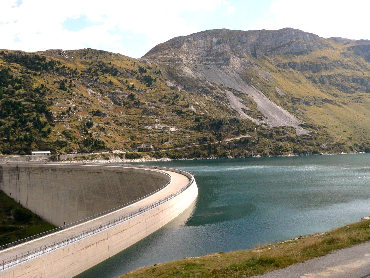 Lago di Lei, Graubünden